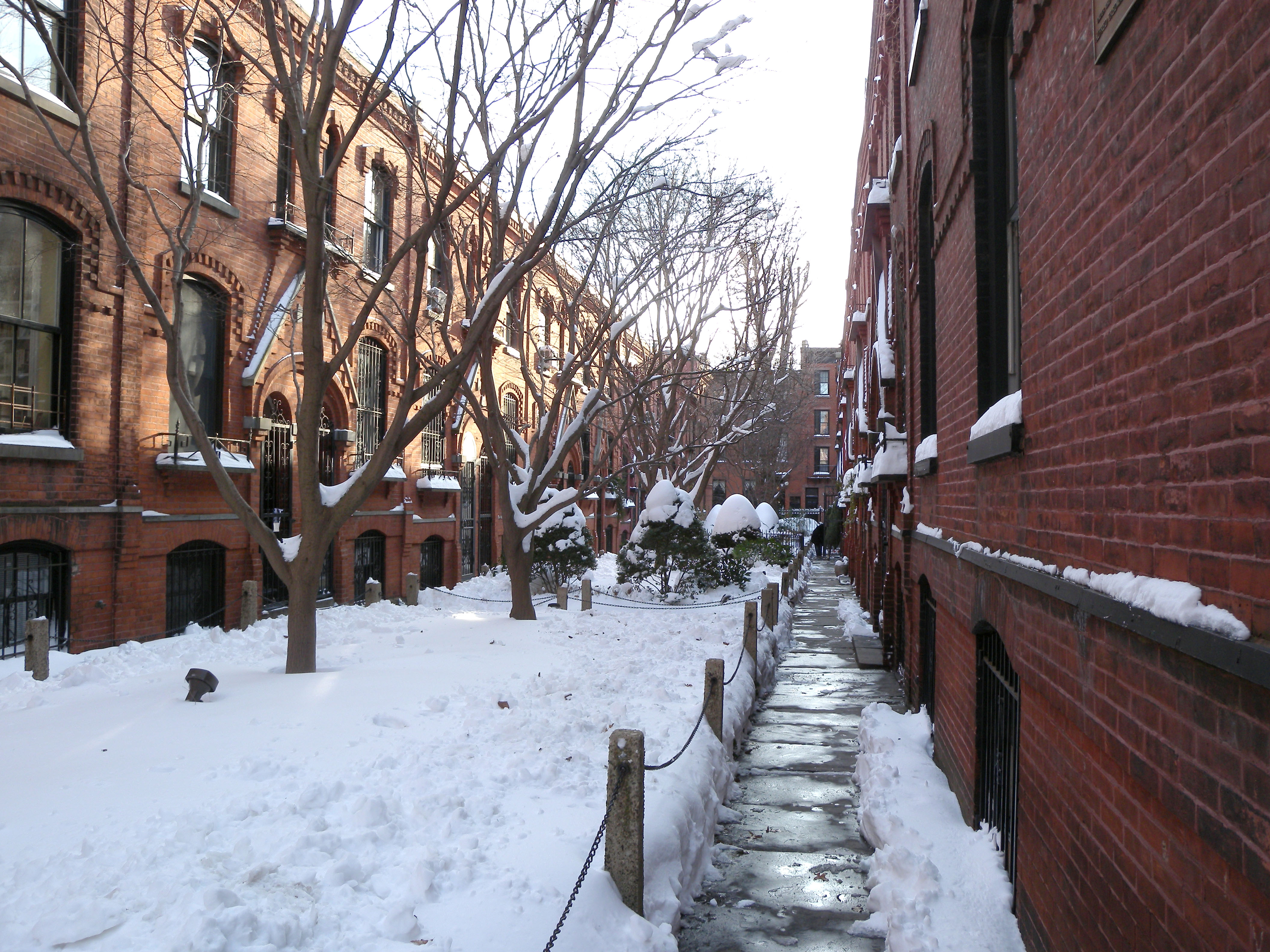 Looking south from Warren Street and along Warren Place, an alley nowadays gentrified, on a sunny day after snowfall.